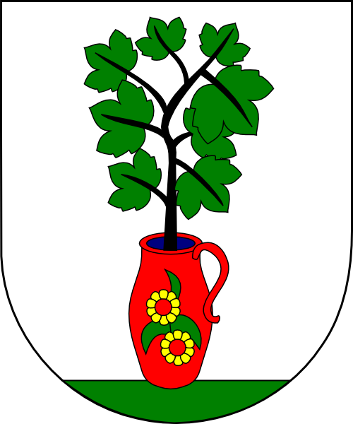 Coat of arms (shield only) of László cardinal Lékai, archbishop of Esztergom, Hungary (1976 - 1986). Version based on his funeral shield published in BEKE, Margit: A prímási levéltár nemesi és címeres emlékei and on this: More precise version than this